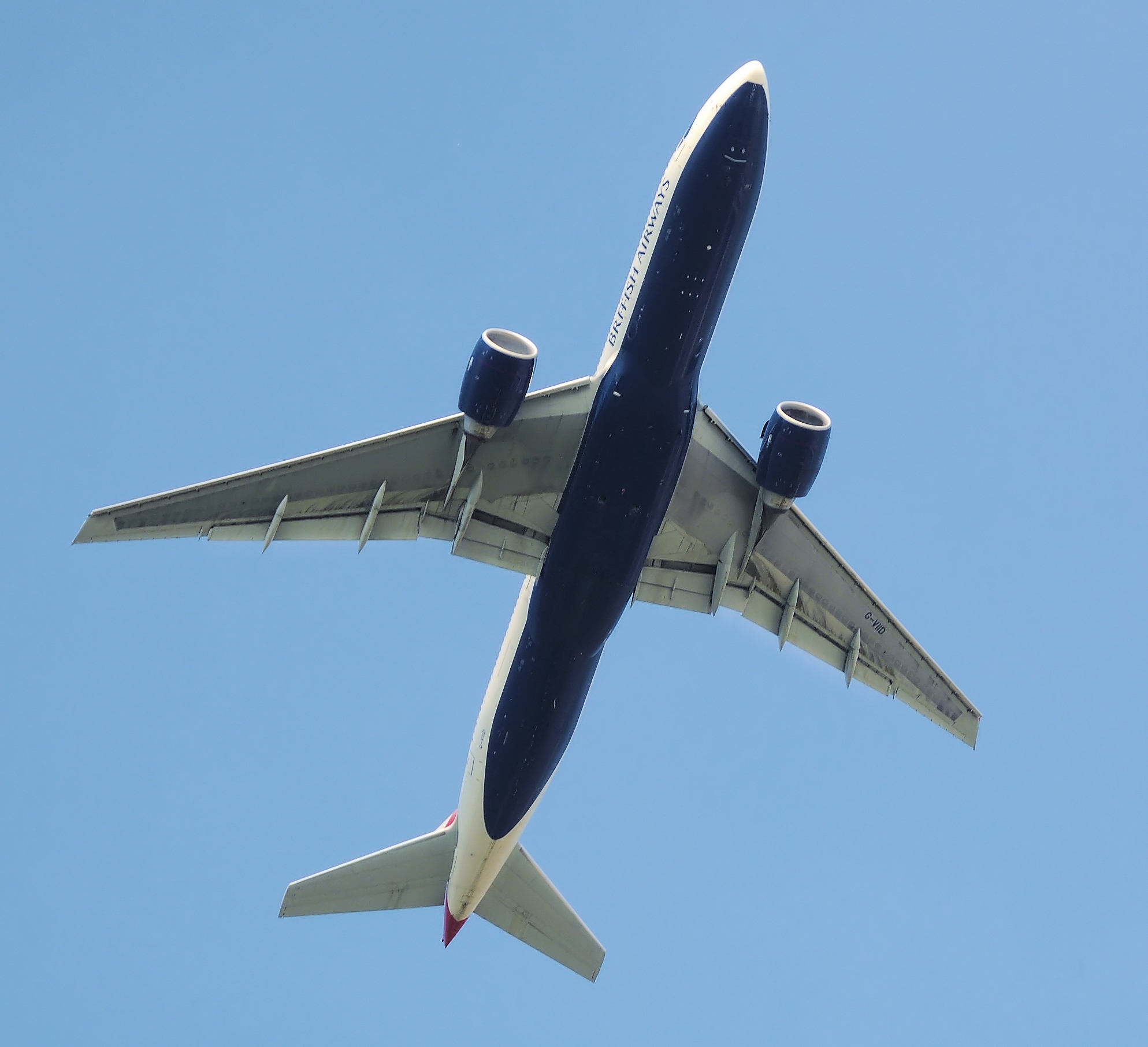 British Airways Boeing 777-200 (G-VIIF) takes off from London Heathrow Airport, England.